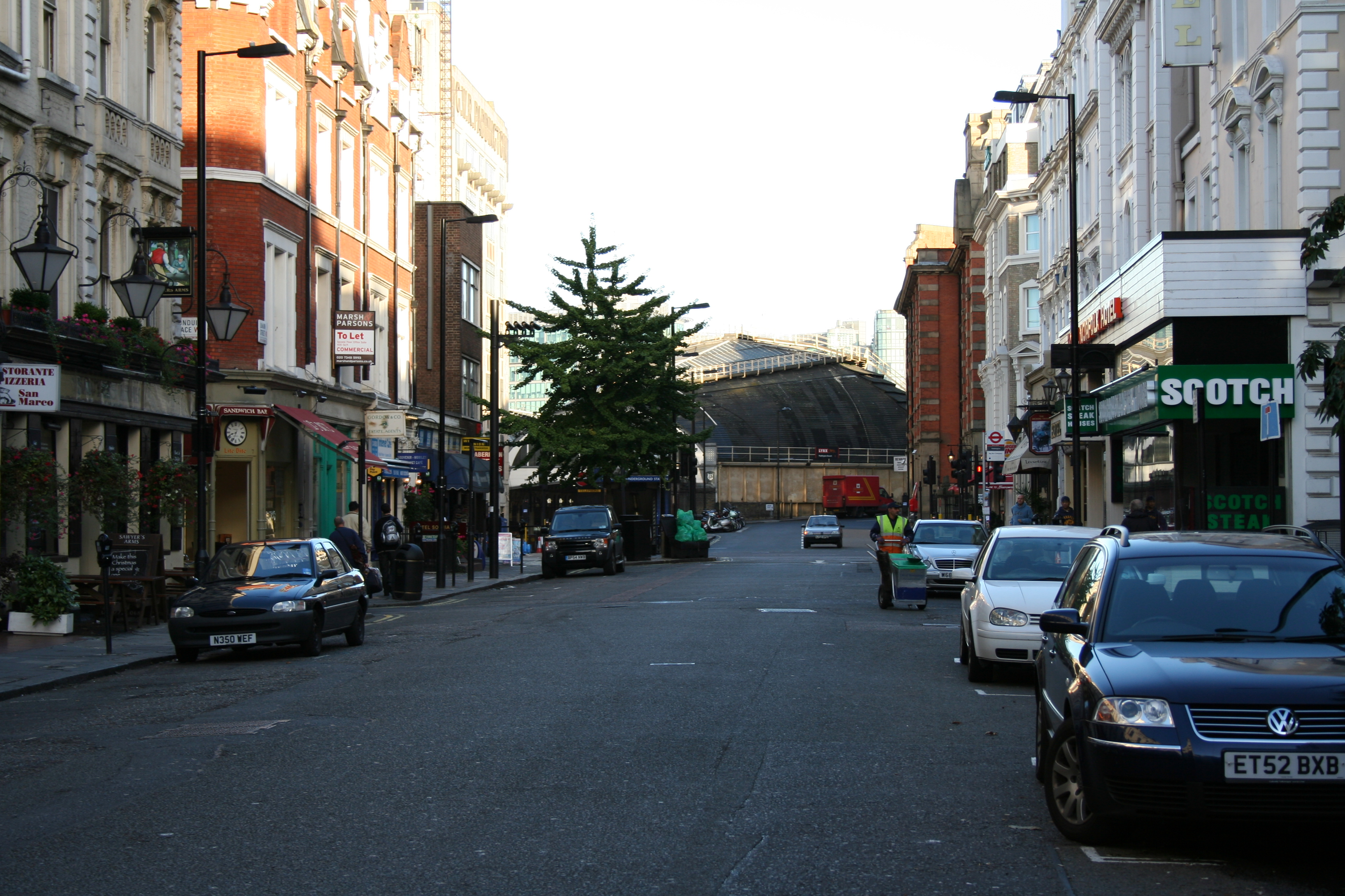 A view of London Street in Paddington, London